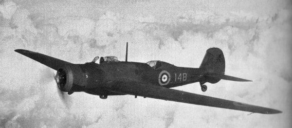 Vickers Wellesley light bomber. Photograph published in: Aircraft of the Fighting Powers Vol I Ed: H J Cooper, O G Thetford and D A. Russell Harborough Publishing Co, Leicester, England 1940. Photographer not identified, so UK Copyright contended to have lapsed 50 years after publication. Picture prepared for Wikipedia by Keith Edkins in April 2004.